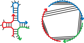 This graphic shows an unpseudoknotted structure along with its corresponding polymer graph as a very basic example.